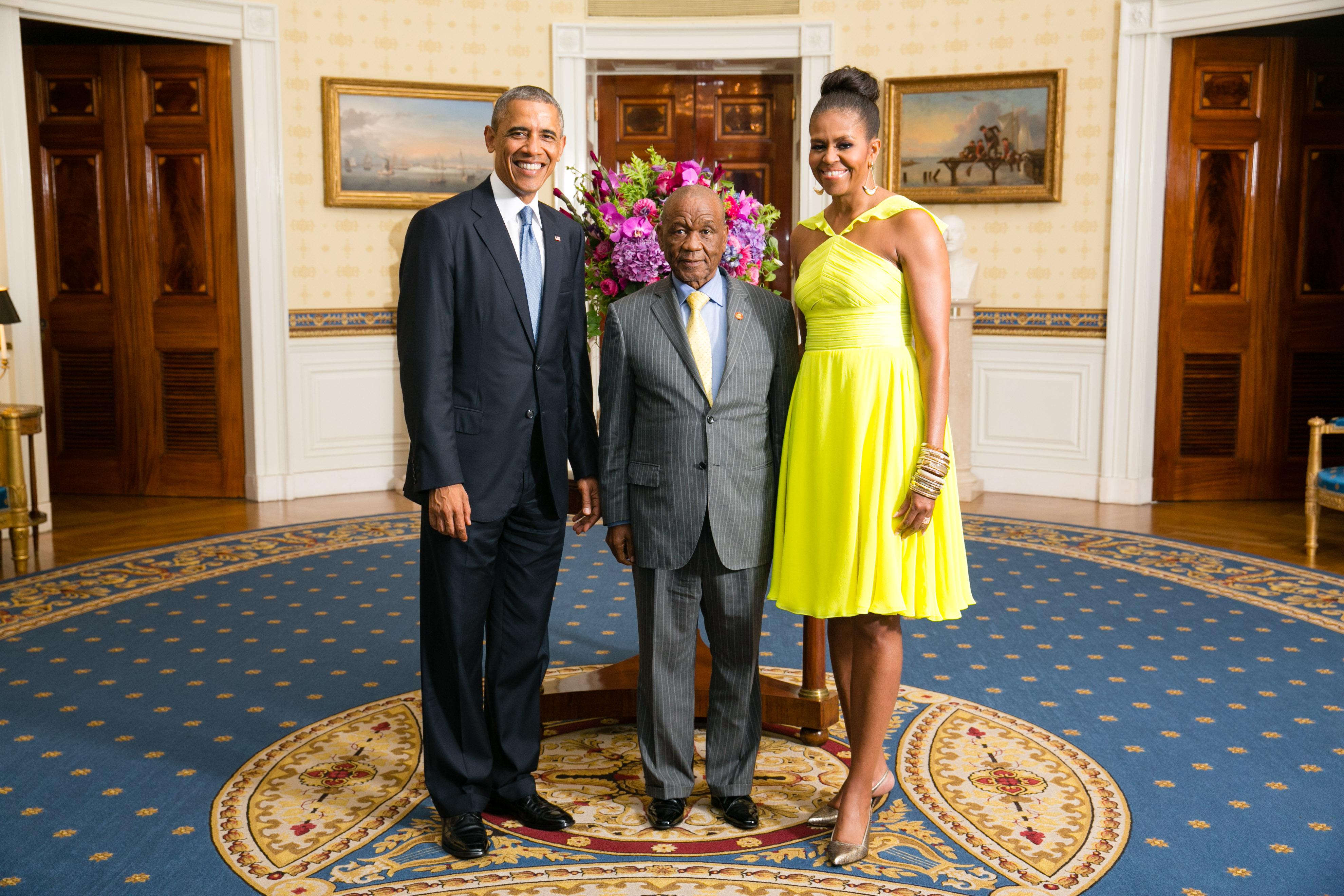 President Barack Obama and First Lady Michelle Obama greet The Right Honorable Motsoahae Thomas Thabane, Prime Minister of the Kingdom of Lesotho, in the Blue Room during a U.S.-Africa Leaders Summit dinner at the White House, Aug. 5, 2014. [Official White House Photo by Amanda Lucidon] This official White House photograph is in the public domain from a copyright perspective, so while restrictions such as personality or privacy rights may apply, in general, manipulations are allowed.